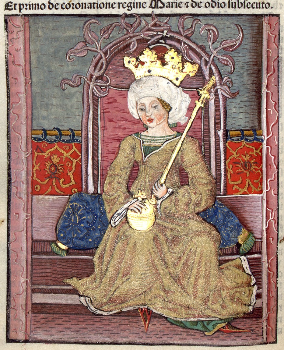 Mary, Queen of Hungary (reign 1382-1395) in Thuróczi's Chronicle